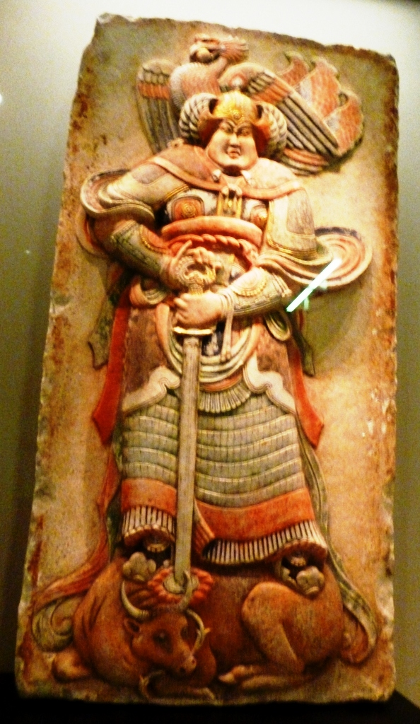 Photo taken in National Museum, Beijing